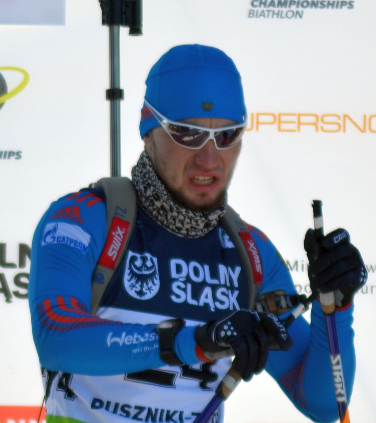 Open European Championships Biathlon 2017, Sprint Men's race, held on January 27th.